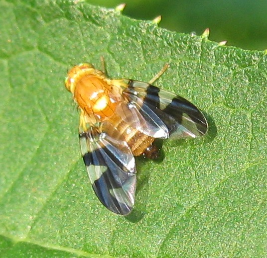 Rhagoletis suavis (Walnut Husk Maggot). Pennypack Ecological Restoration Trust, Montgomery County, Pennsylvania, USA.